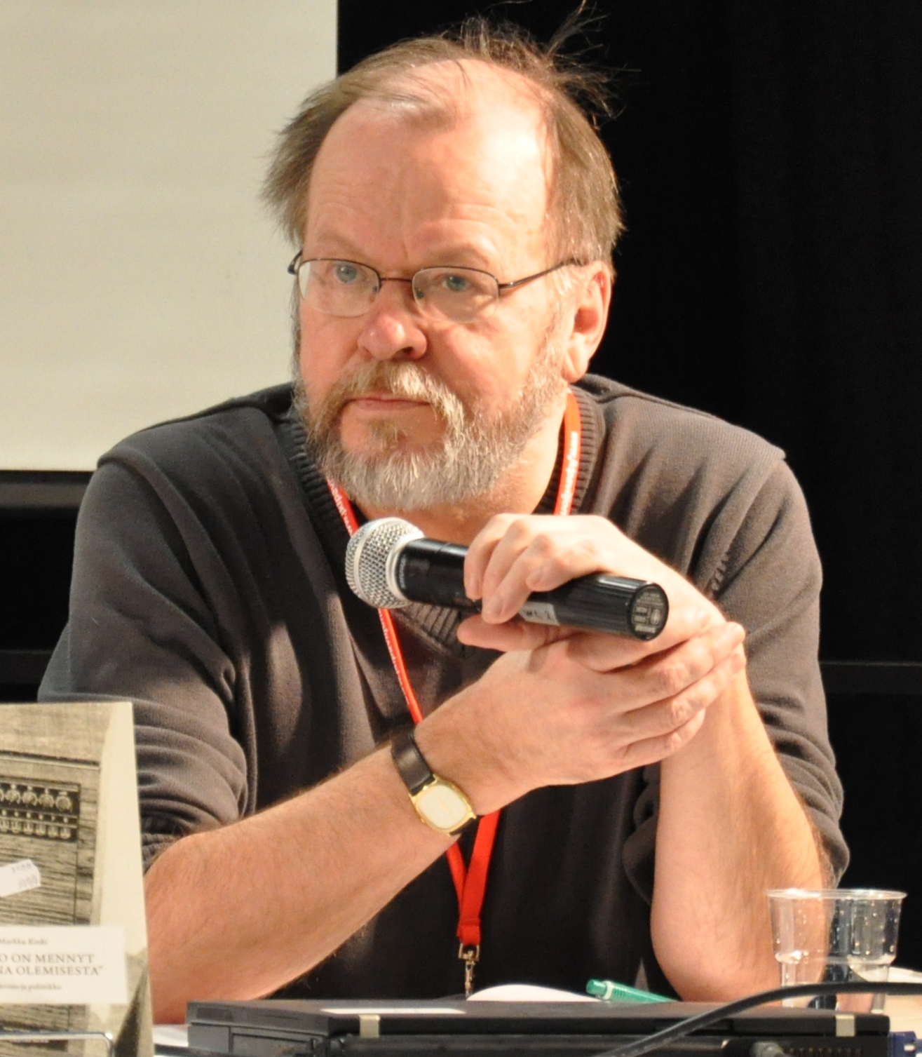 Finnish writer Markku Koski at the Jyväskylä Book Fair 2010.